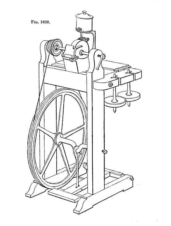 19th century knowledge mechanisms foot power small grinder